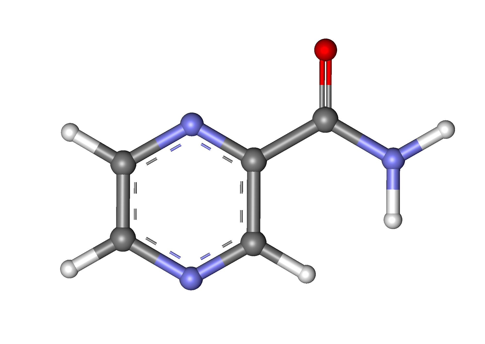 Ball-and-stick model of pyrazinamide molecule. The structure is taken from ChemSpider. ID 1017